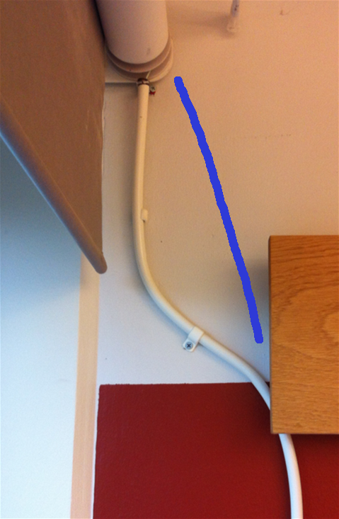 Guide tube for a cord used to raise and lower a roller shade. The s-bend in the tube suggests the individual who implemented the installation had no knowledge of the capstan equation. A single, gentle bend would have resulted in considerably less friction on the cord, reducing the force required to raise the shade.